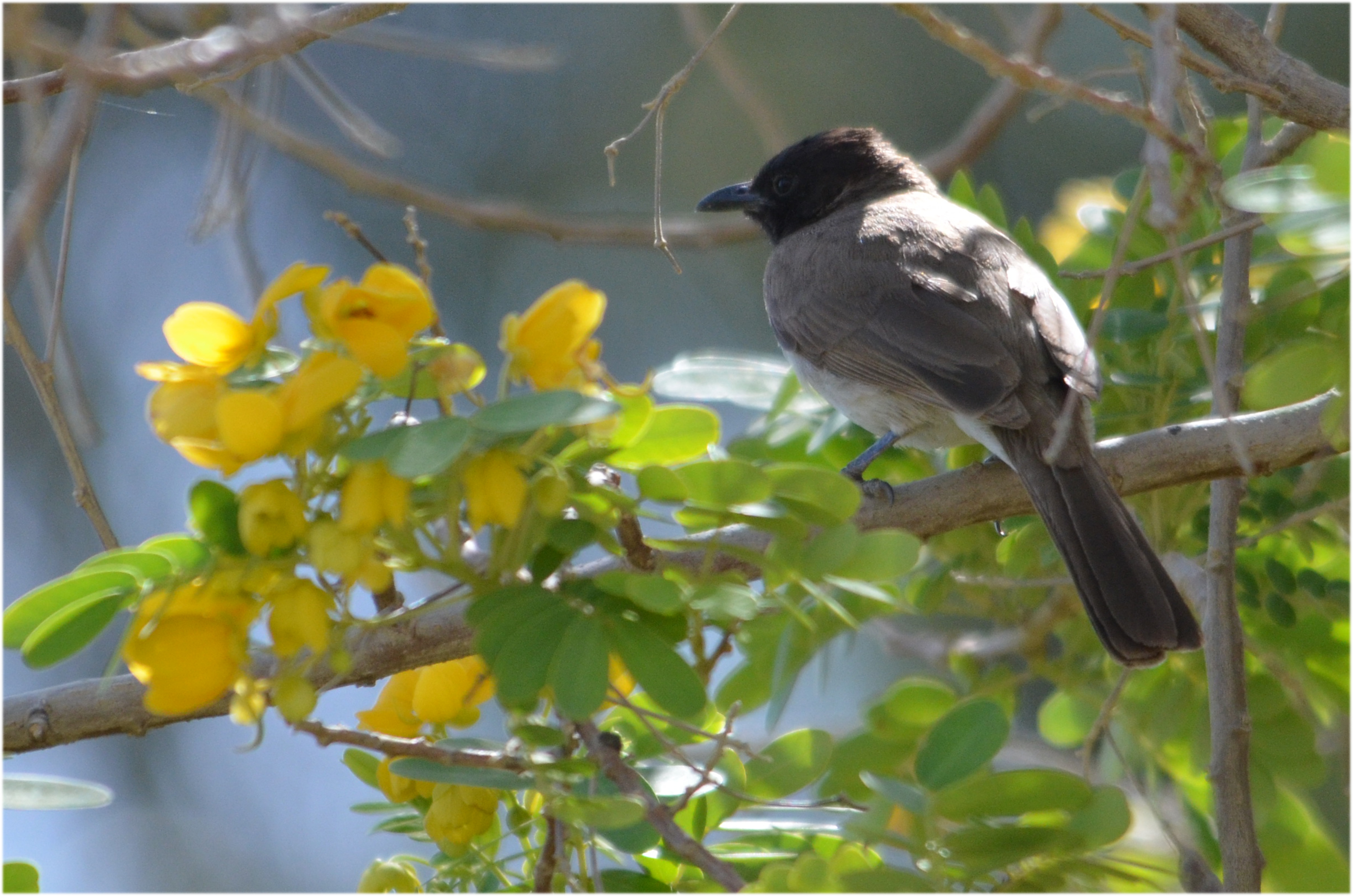 Common bulbul